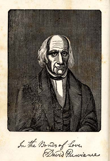 David Purviance, 1766-1847. Image published in 1848 as frontispiece to "The Biography of Elder David Purviance, with His Memoirs: Containing His Views on Baptism, the Divinity of Christ, and the Atonement. Written by Himself: with an Appendix; Giving Biographical Sketches of Elders John Hardy, Reuben Dooly, William Dye, Thos. Kyle, George Shidler, William Kinkade, Thomas Adams, Samuel Kyle, and Nathan Worley. Together with a Historical Sketch of the Great Kentucky Revival". By Levi Purviance. Publication information: "Dayton: For the author by B. F. & G. W. Ells, 1848."